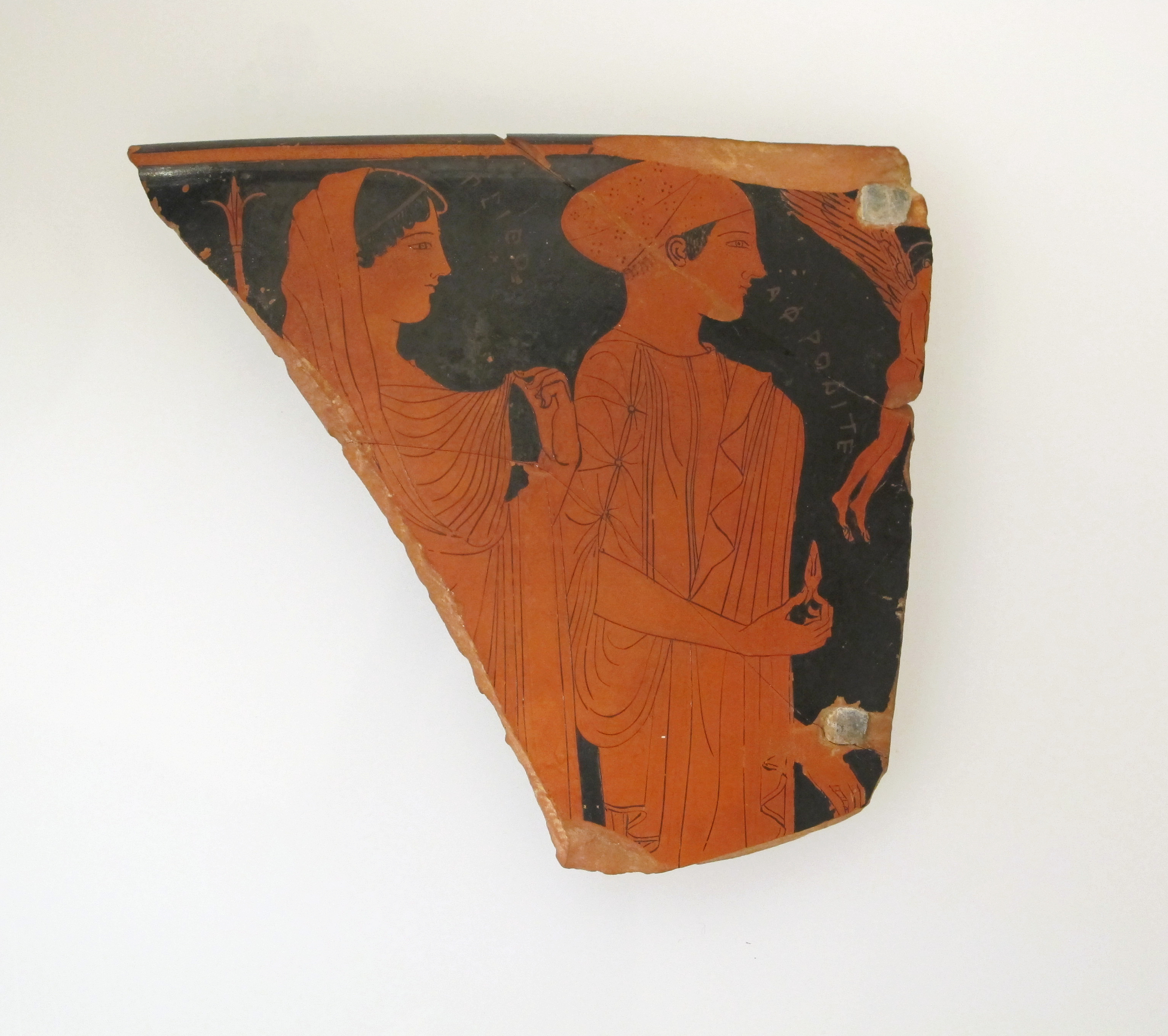 Peitho (the personification of persuasion), Aphrodite, and Eros. These three figures belonged to a representation of either the Judgement of Paris or Menelaos reclaiming his wife, Helen, at Troy. At this time, large skyphoi were favored for elaborate mythological decorations, especially by painters around Douris and Makron. The ladies are exceptionally grand and statuesque.